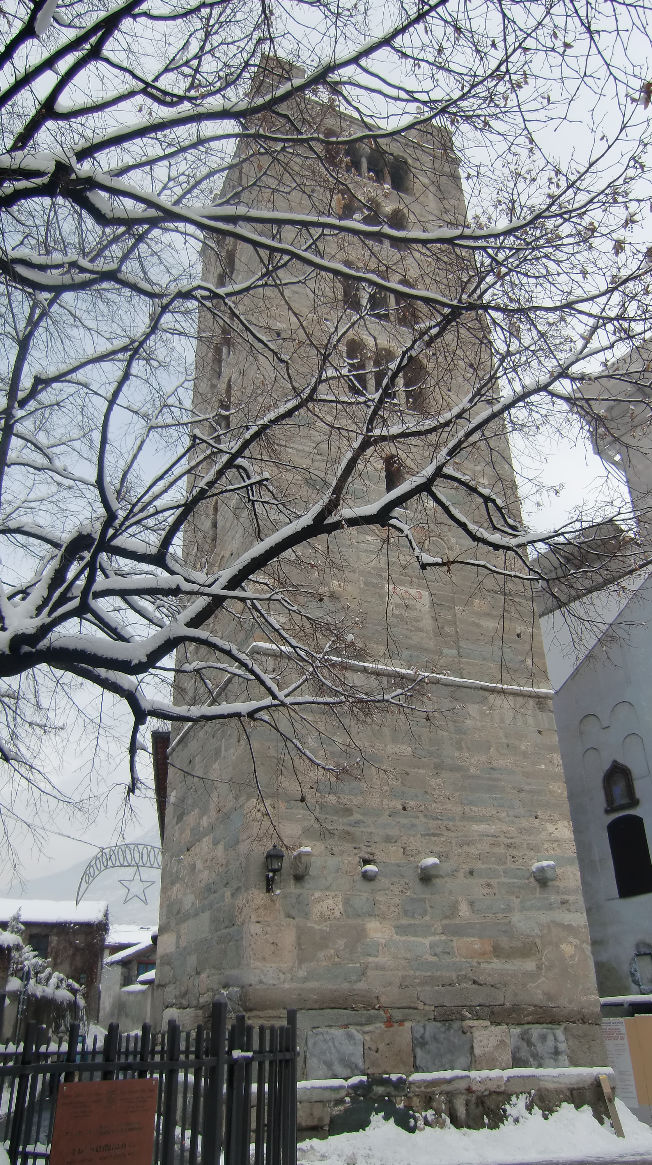 St. Orso Parish Church, Bell Tower, XII century Aosta, Italy